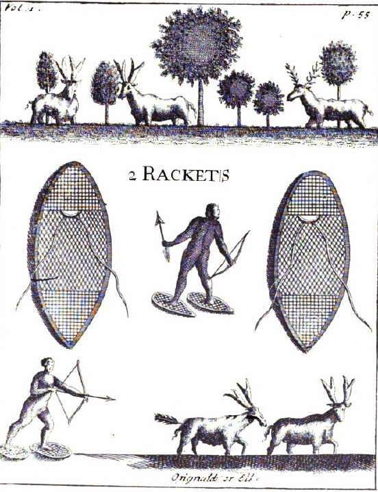 Rackets or snow shoes used by Algonquin tribes for elk hunting.